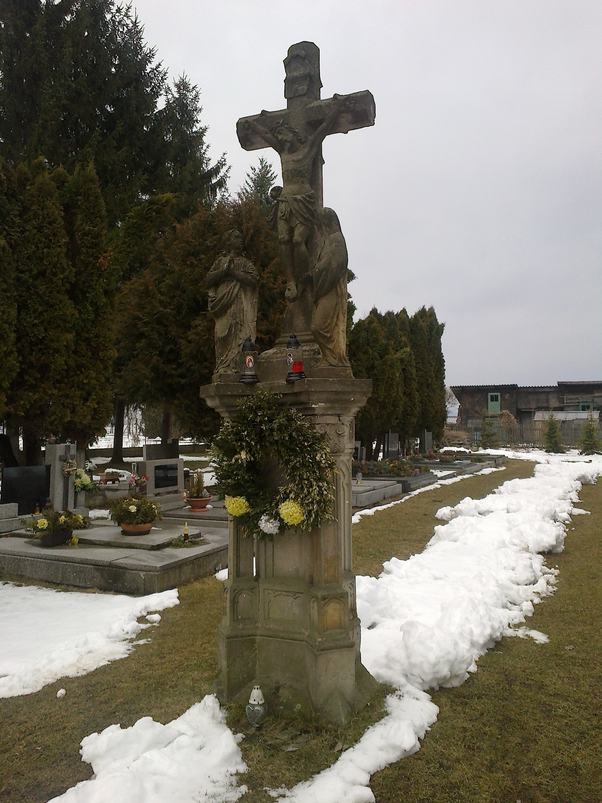 Velká Jesenice - sculpture of Crucifixion